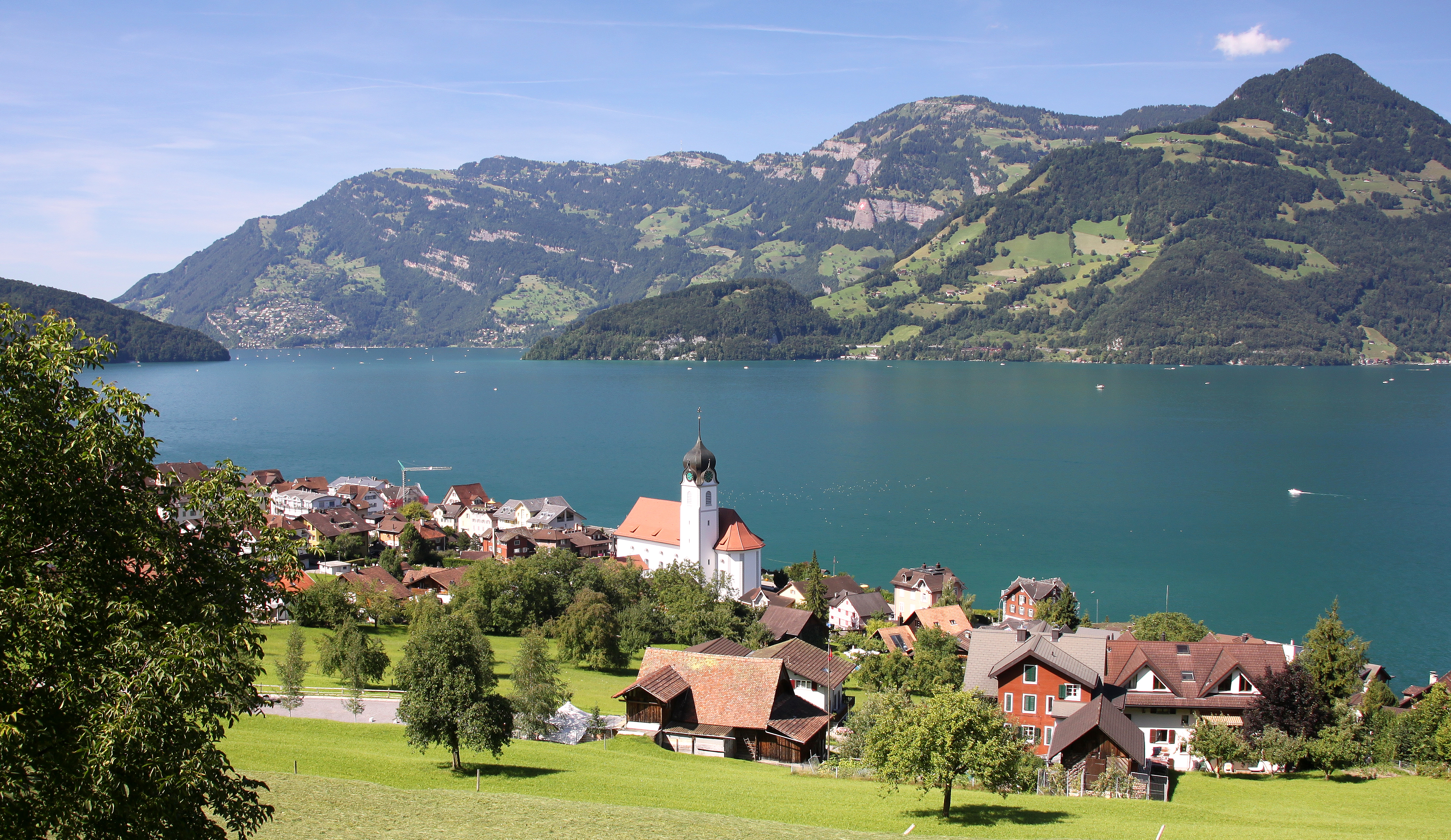 View of Lake Lucerne in Switzerland near the town of Beckenried.